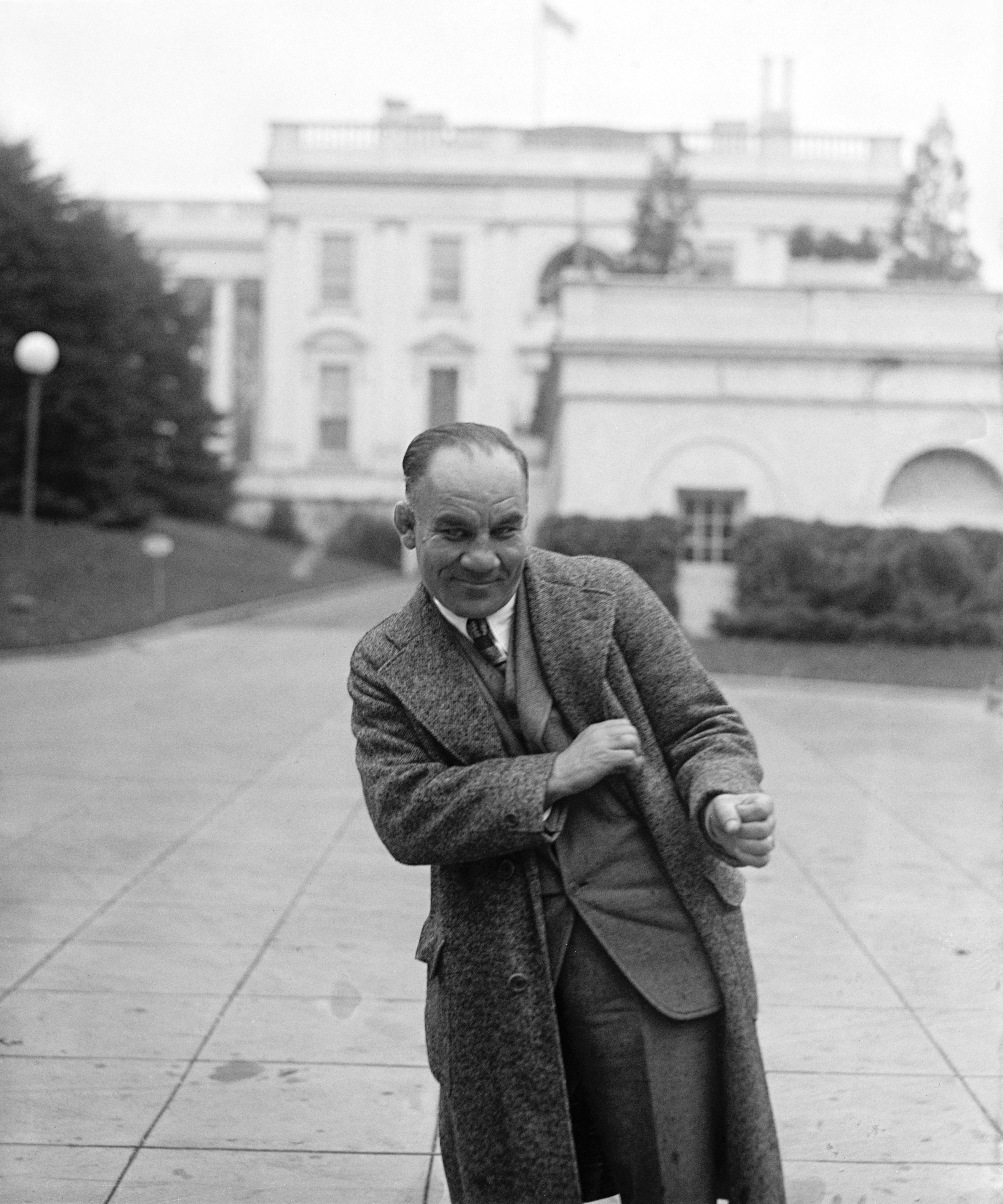 Photo of boxer Abe Hollandersky at age 41, taken November, 8, 1929 in Washington, DC after meeting with President Herbert Hoover. Hollandersky wearing three piece suit, striped tie, and long tweed overcoat. Matches clothing worn by Abe in photo in his Autobiography where Abe is standing in front of White House carrying his photo album, with caption, "On the White House Steps, before entering to pay my respects to the President, November, 1929". Photo in "The Life Story of Abe the Newsboy, Hero of a Thousand Fights With US Navy", Edition 22, (1958), Abe the Newsboy Publishing, Los Angeles, California, , pg. 81